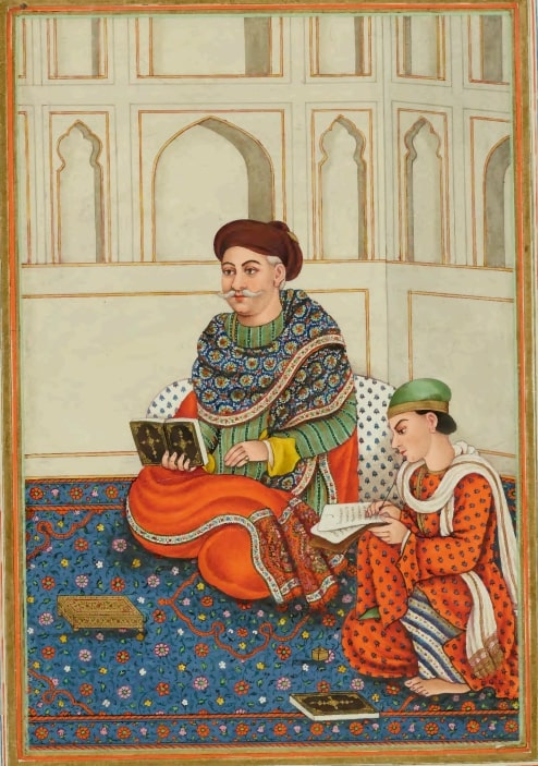 A Khattri nobleman, in 'Kitab-i tasrih al-aqvam' (History of the Origin and Distinguishing Marks of the Different Castes of India) by Col. James Skinner, aka Sikandar Sahib(1778-1841)